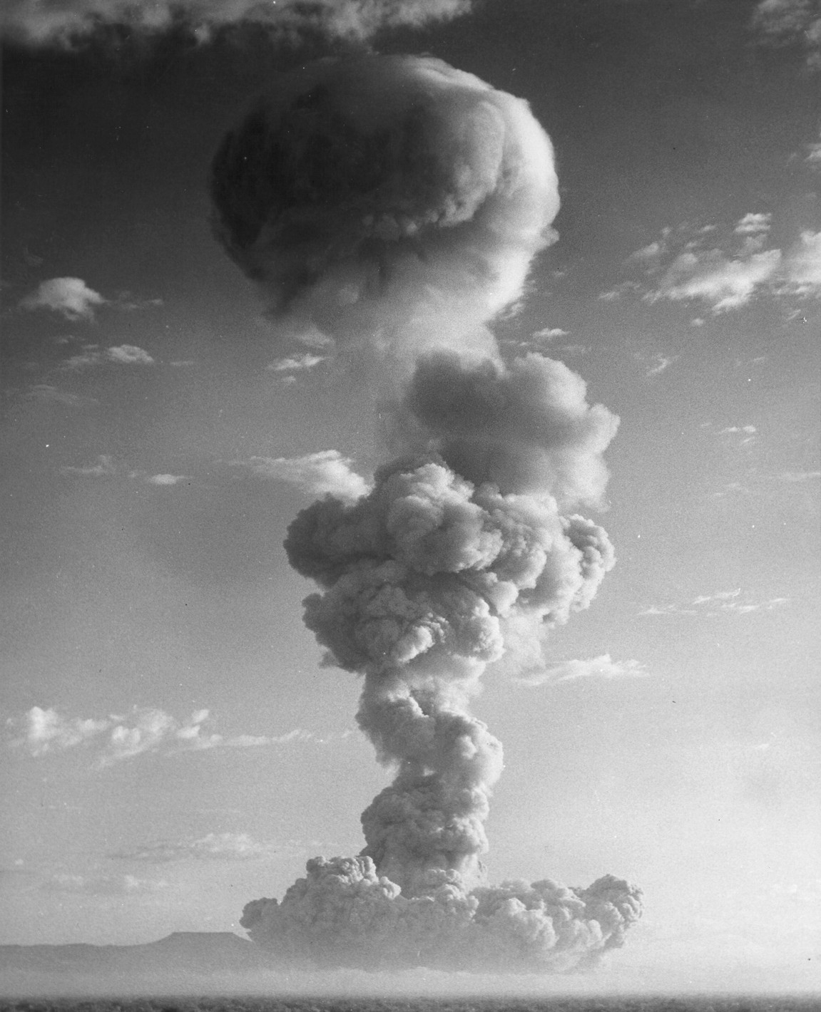 PLUMBBOB/OWENS -OWENS CLOUD: Nevada Test Site, July 25, 1957. “OWENS” cloud in middle stages of its surge to 35,000 feet above Yucca Flat, showing early phase of ice cap forming over cloud top. Shot was the tenth in the current full-scale series.PLUMBBOB/OWENS -OWENS CLOUD: Nevada Test Site, July 25, 1957. “OWENS” cloud in middle stages of its surge to 35,000 feet above Yucca Flat, showing early phase of ice cap forming over cloud top. Shot was the tenth in the current full-scale series.